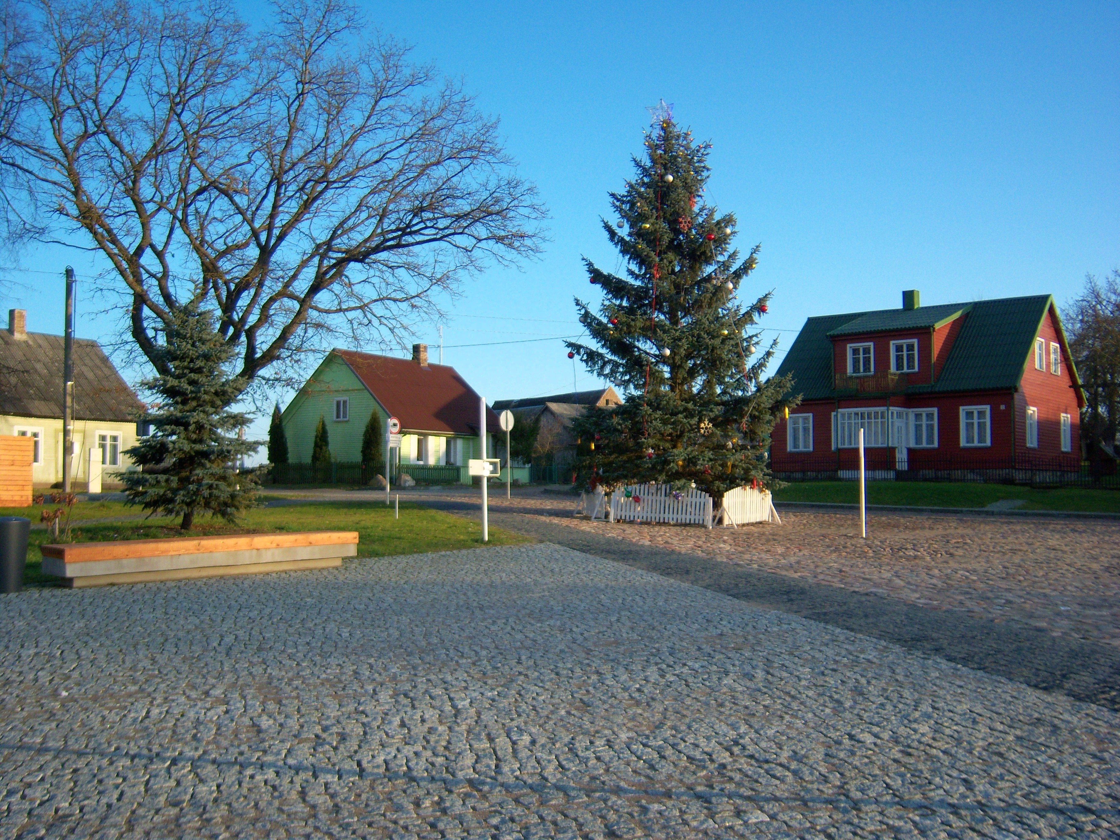 Christmas tree, Šiluva, Raseiniai District, Lithuania